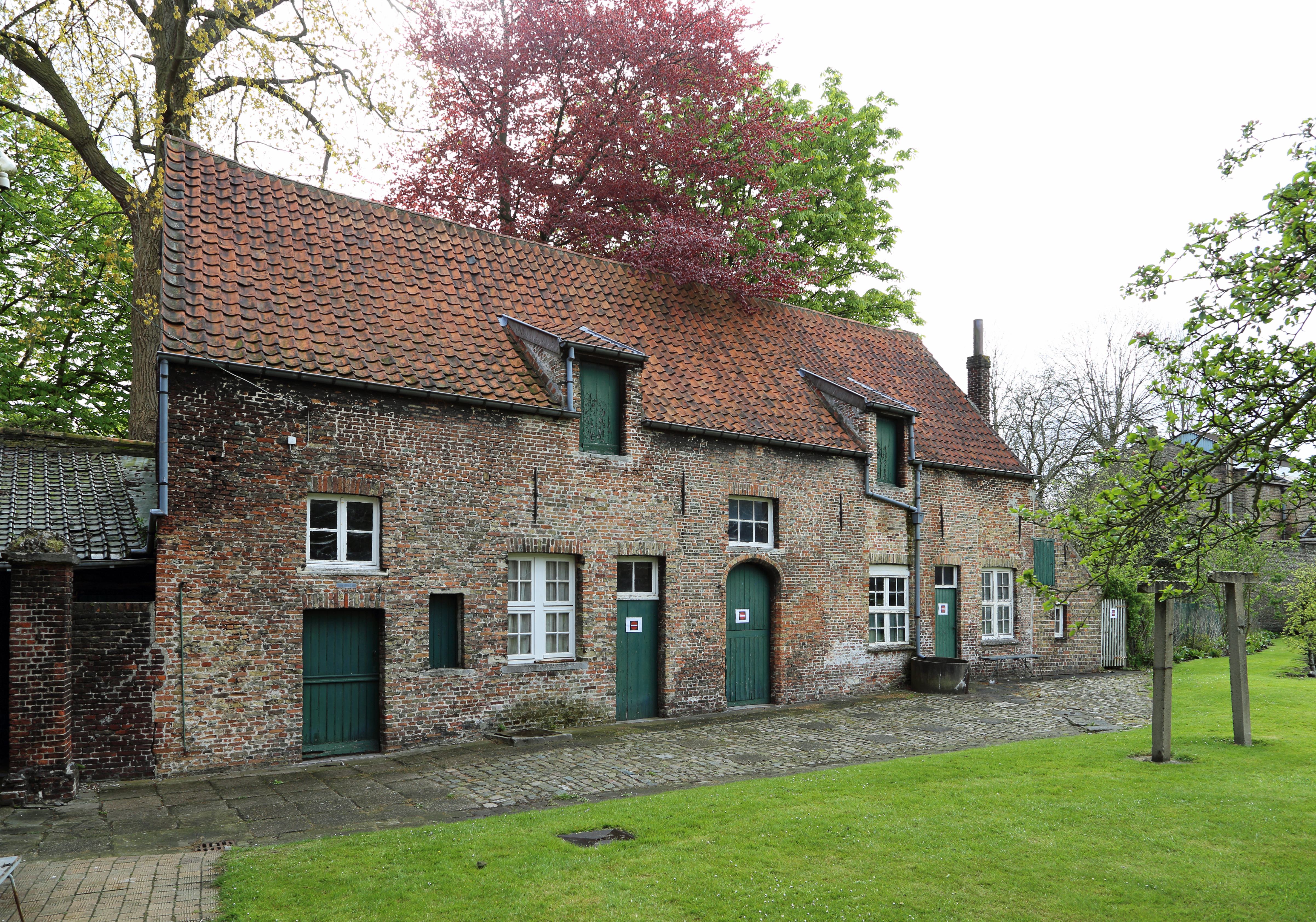 Bruges (Belgium): monastery of St Godelieve - outbuilding